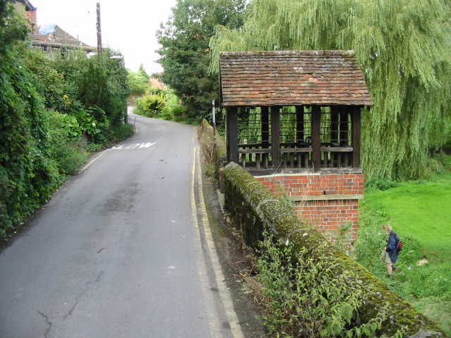 St Ethelburga's Well, Well Road, Lyminge, Kent. The well house is over a spring that is probably the main source of the river Nailbourne that flows down the Elham Valley. The canopy and chain pump were built in 1898.